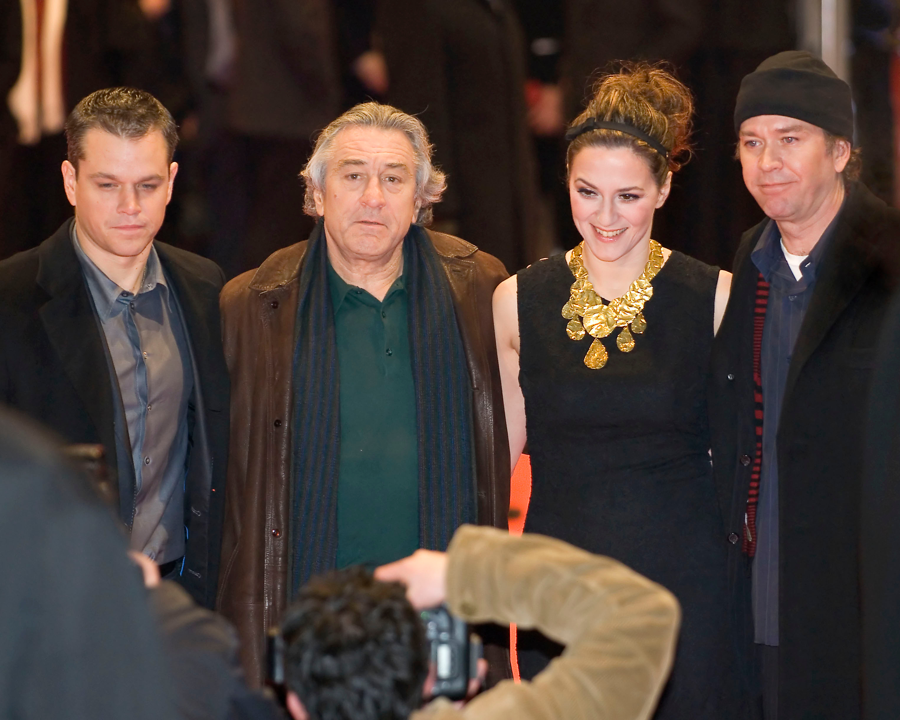 Matt Damon, Robert De Niro, Martina Gedeck, and Timothy Hutton at the premiere of The Good Shepherd in Berlinalepalast, Postdamer Platz, Marlene-Dietrich-Platz.